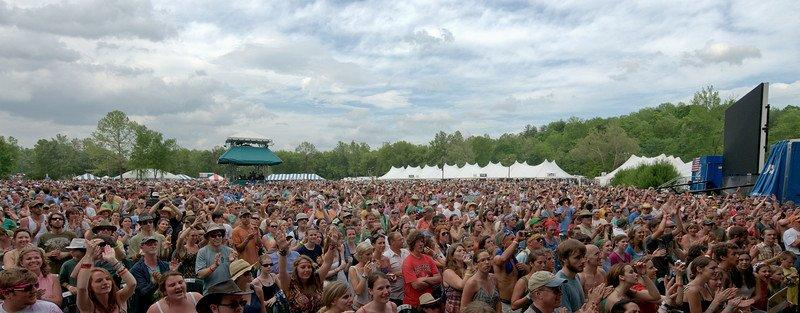 Record-breaking crowd at MerleFest during Avett Brothers performance (Photo by Jacob Caudill)